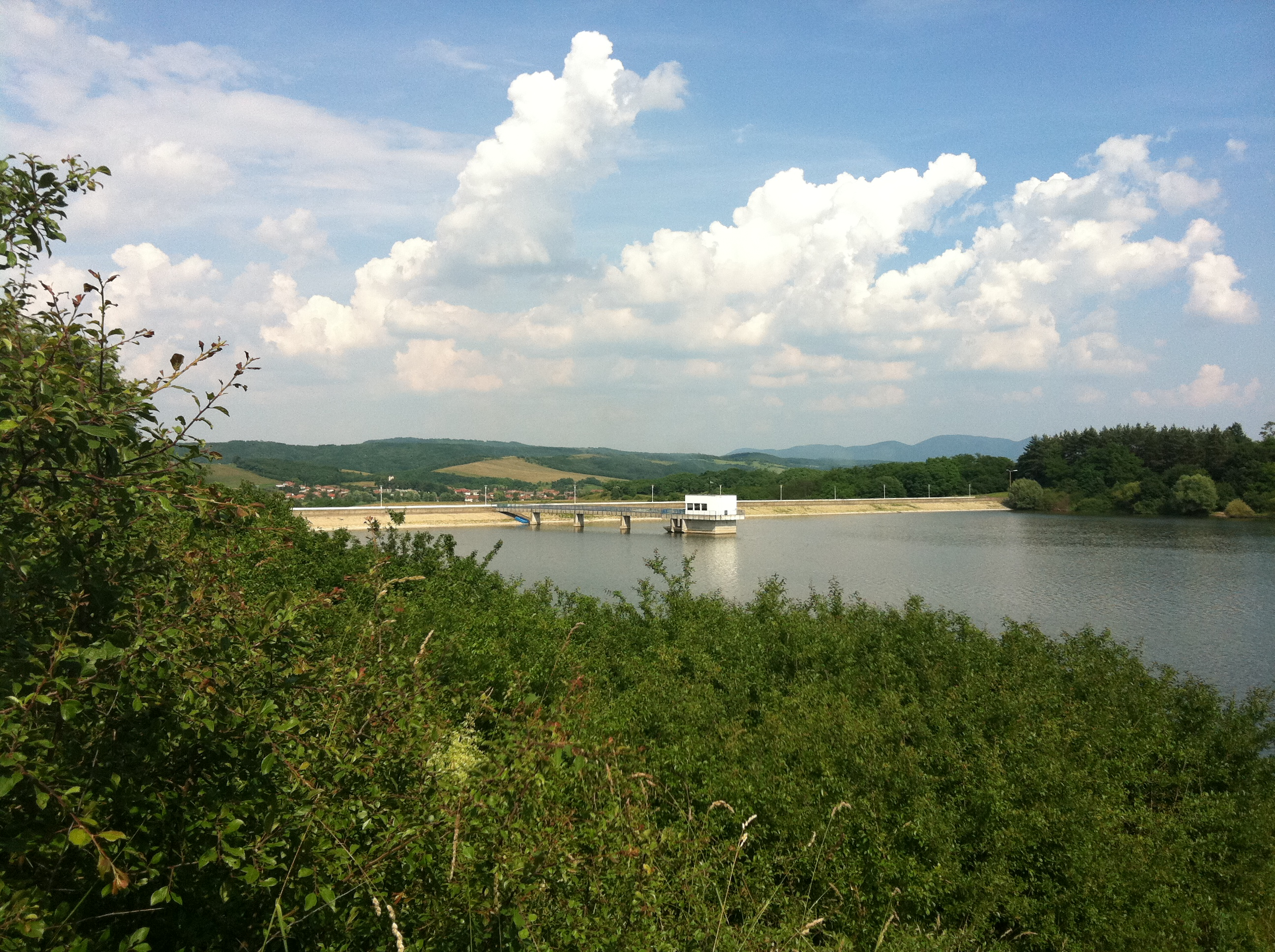 Mihálygerge, Hungary. Reservoir in the Komra valley.